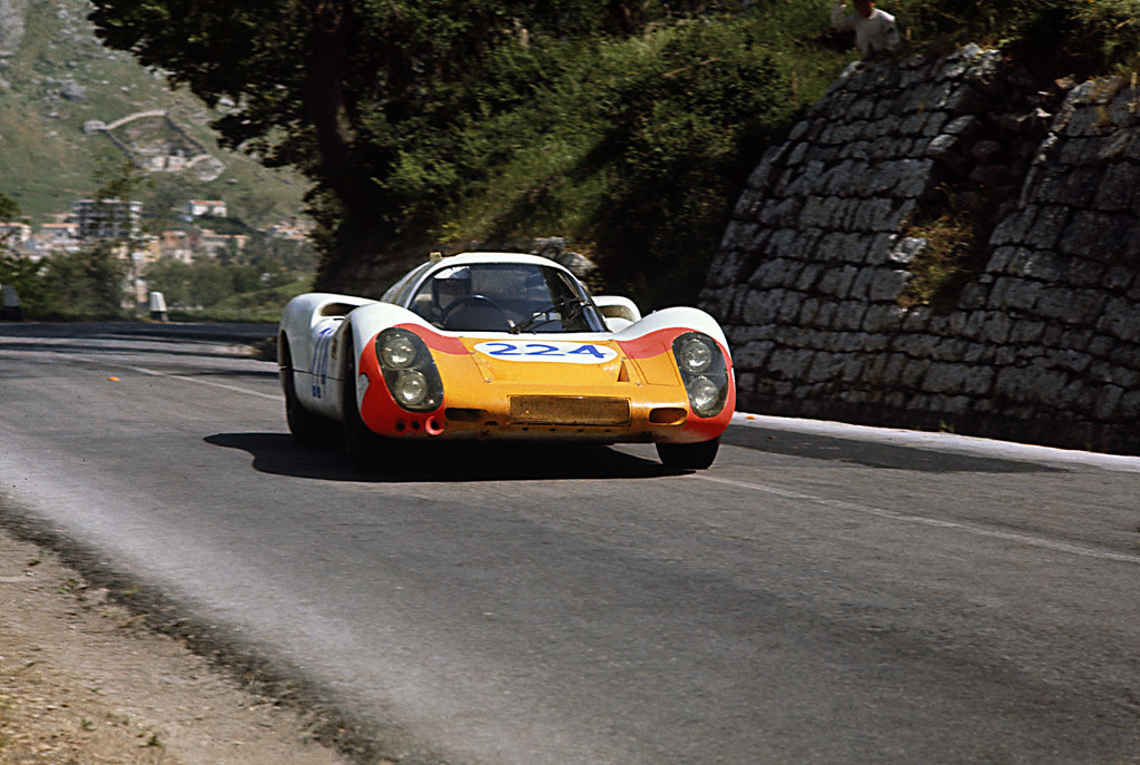 Vic Elford and Umberto Maglioli were registered as drivers on this Porsche 907 2.2 GTi and WINNERS of Targa Florio on 5 May 1968.[1]